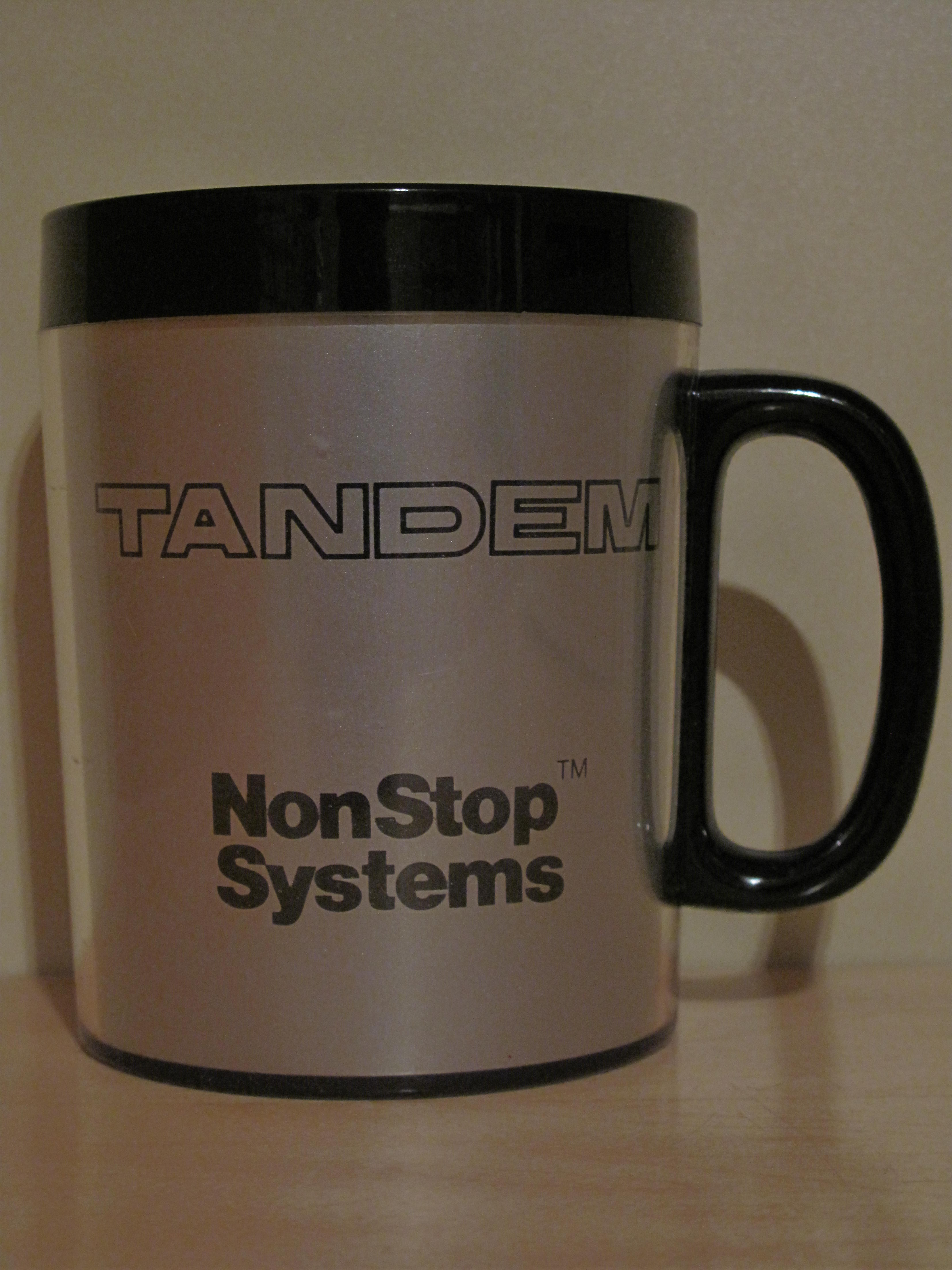 Promotional mug of the former US company Tandem Computers. That company was specialized in non-stop computers by redundancy. On some mugs, there were 2 handles to represent this redundancy.